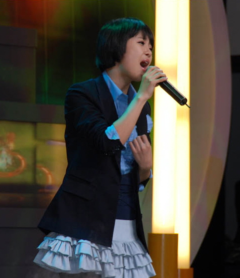 Baek Ji-young